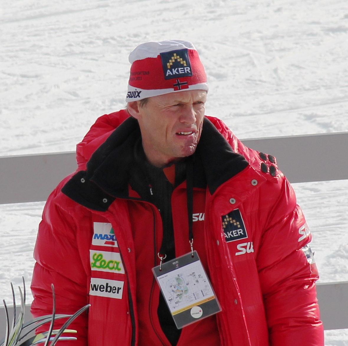 Pål Gunnar Mikkelsplass, serviceman at the FIS Nordic World Ski Championships in Oslo